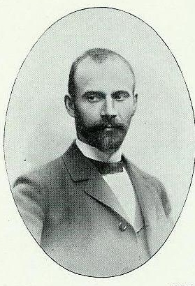 A photograph of Prince Ernst of Saxe-Meiningen, taken about 1898